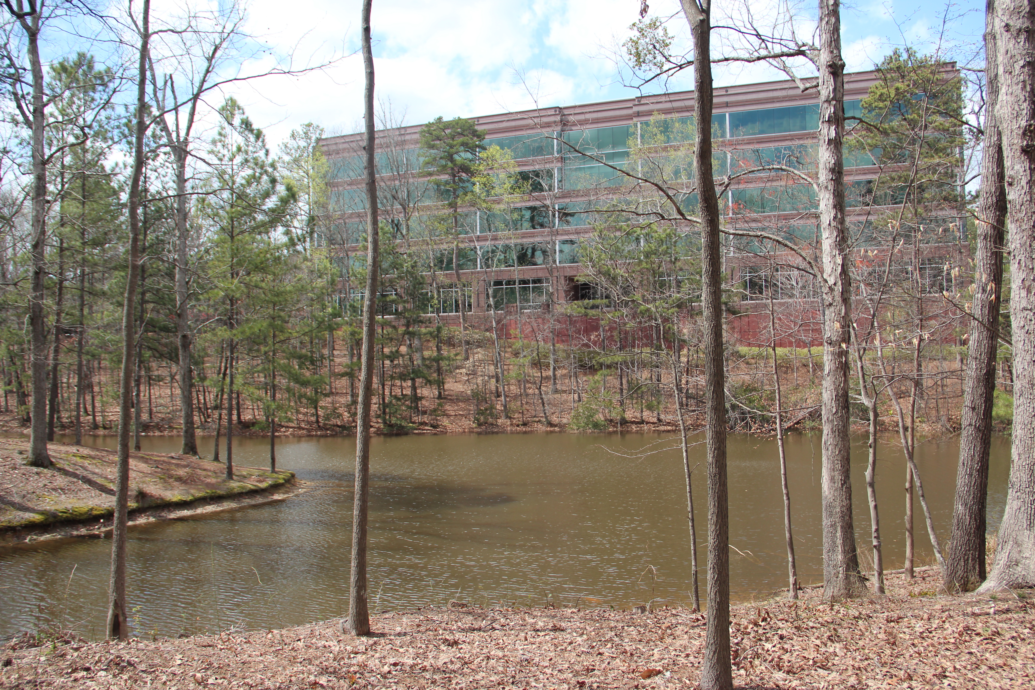 5445 Triangle Parkway NW in Peachtree Corners